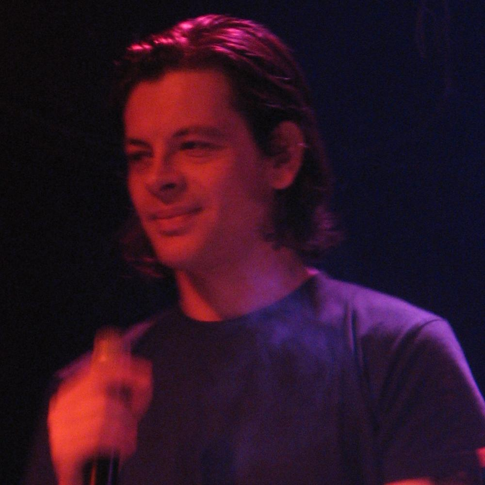 Benjamin Biolay at a concert in Madrid.